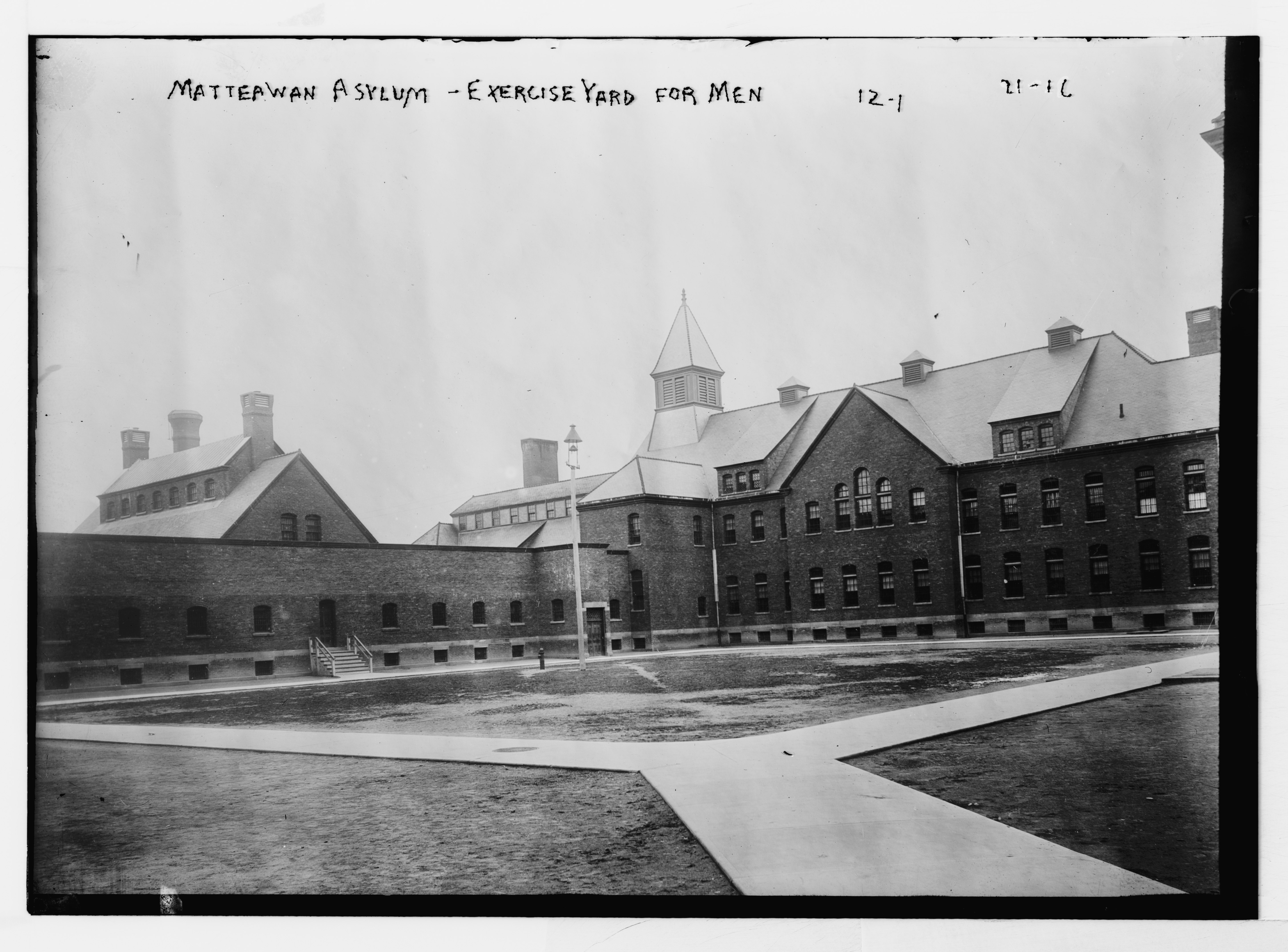 Title: Matteawan Asylum - exercise yard for men Abstract/medium: 1 negative : glass ; 5 x 7 in. or smaller.